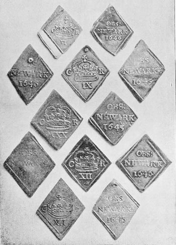 In 1646, To meet the urgent demands for money, during the siege of Newark-on-Trent, the Royalists set up a mint that manufactured lozenge-shaped coin — half-crowns, shillings, ninepences, and sixpences.